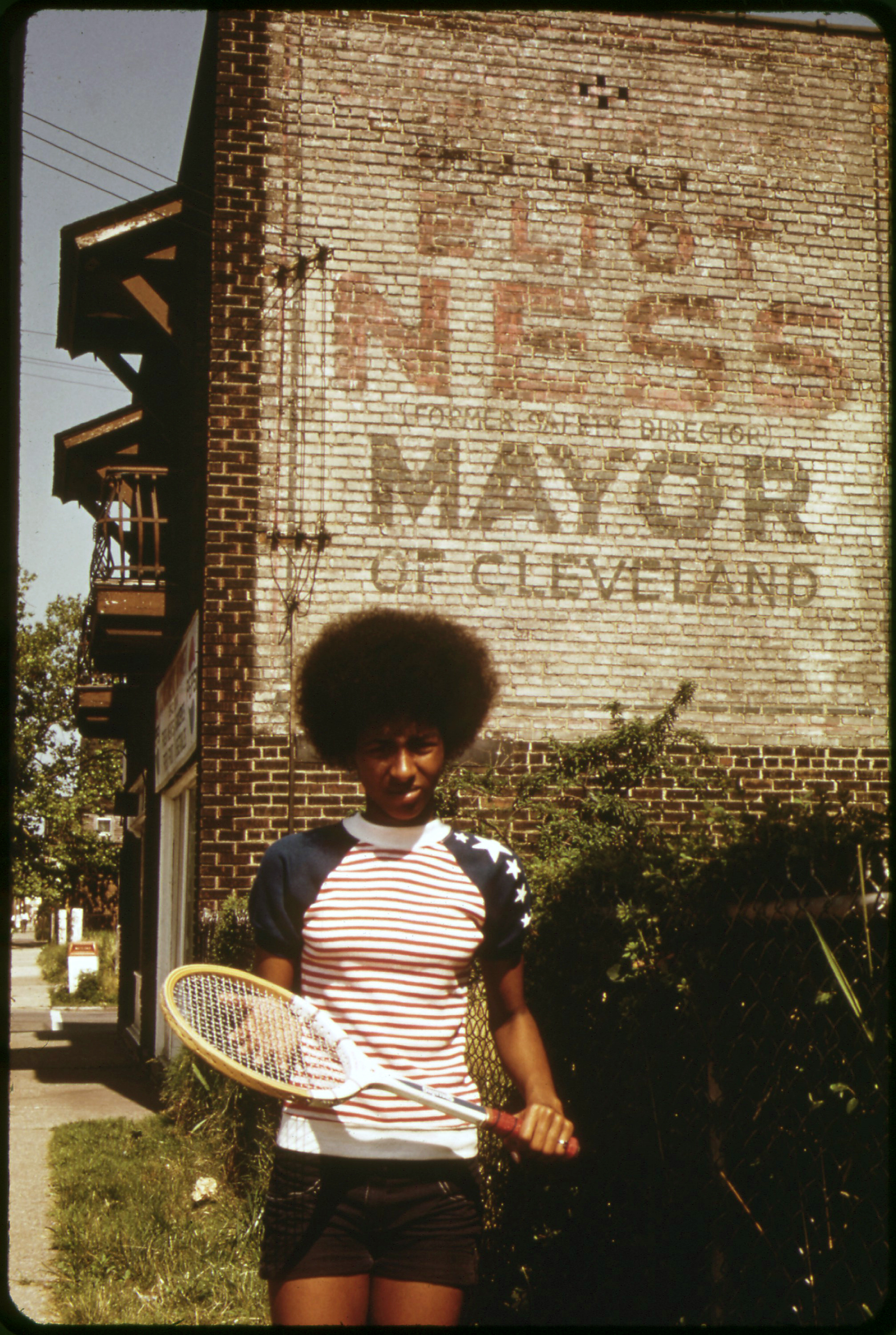 General notes: Old painted sign on building for Elliot Ness for Mayor of Cleveland seen in background; seems to be from 1947 not 1938 as DOCUMERICA caption states (see W:Elliot Ness)